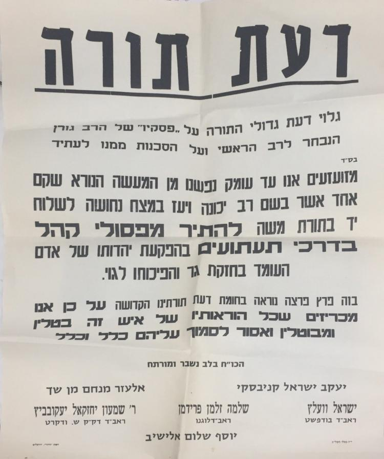 A poster distributed in response to a ruling by the rabbinical court headed by Rabbi Shlomo Goren in the Langer affair